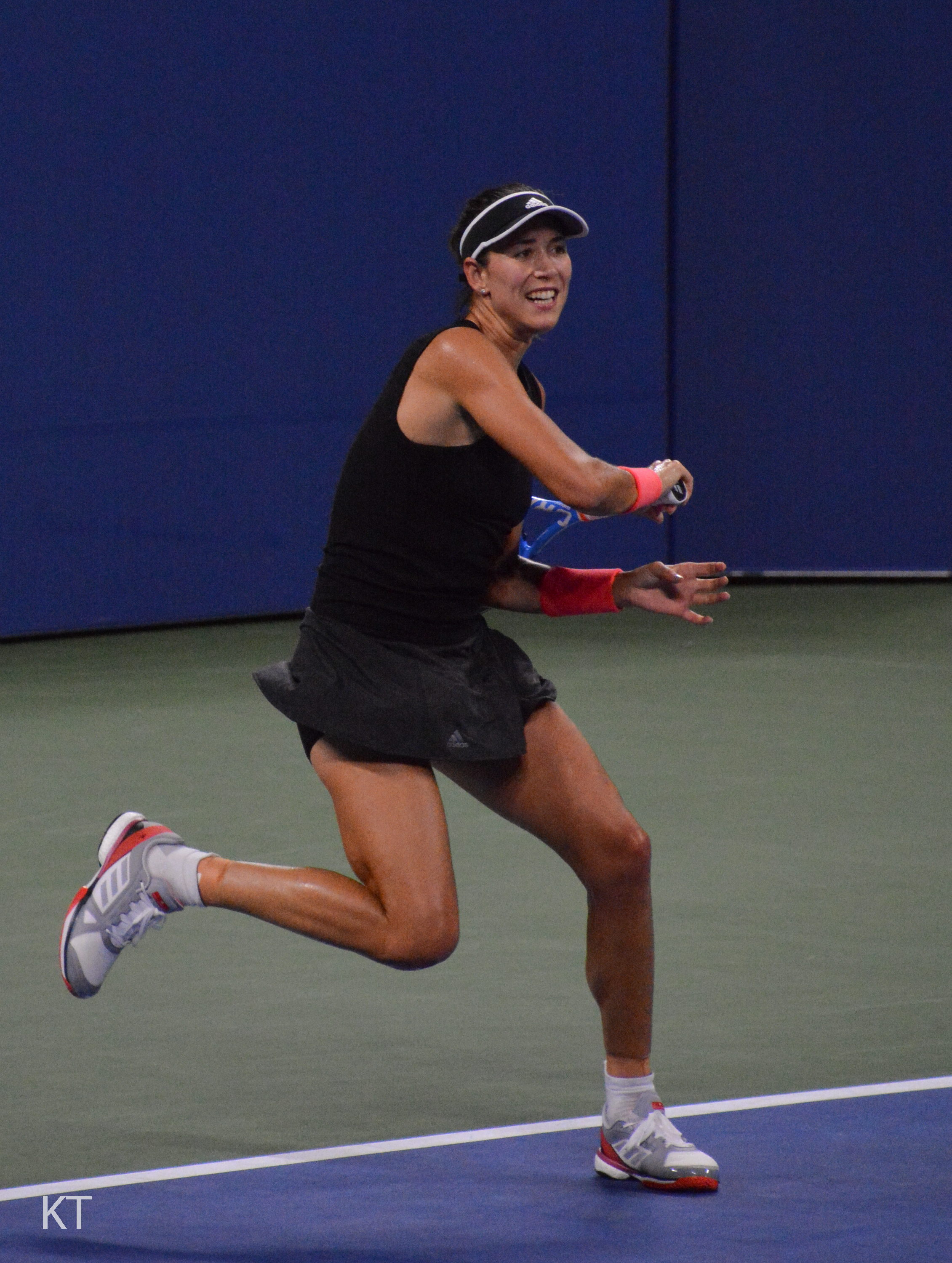 Garbiñe Muguruza during her 2nd round match against qualifier Karolina Muchova. Muchova won 3-6, 6-4, 6-4, after being 0-5 down in the first set. Day 3 of US Open 2018.